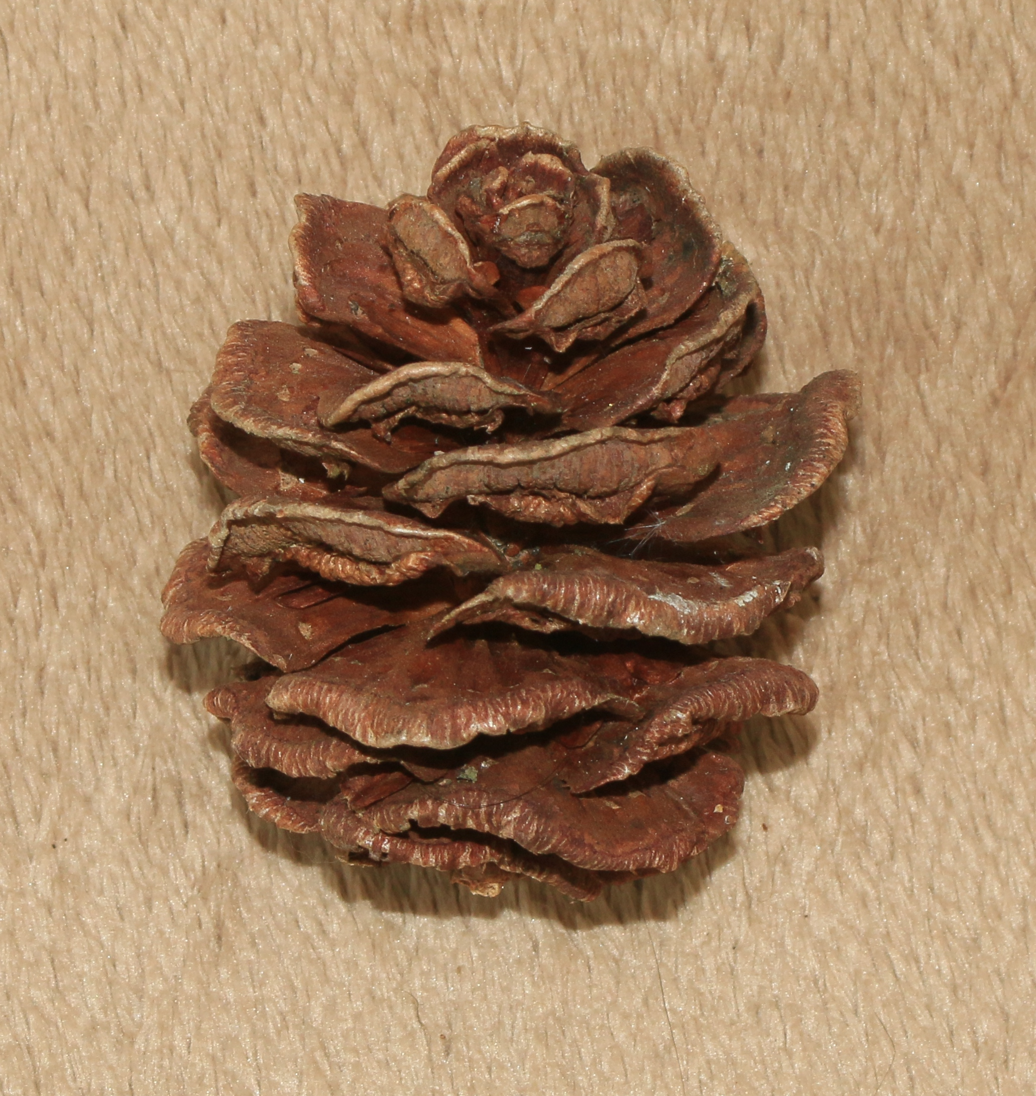 Cammo estate, Edinburgh, Scotland